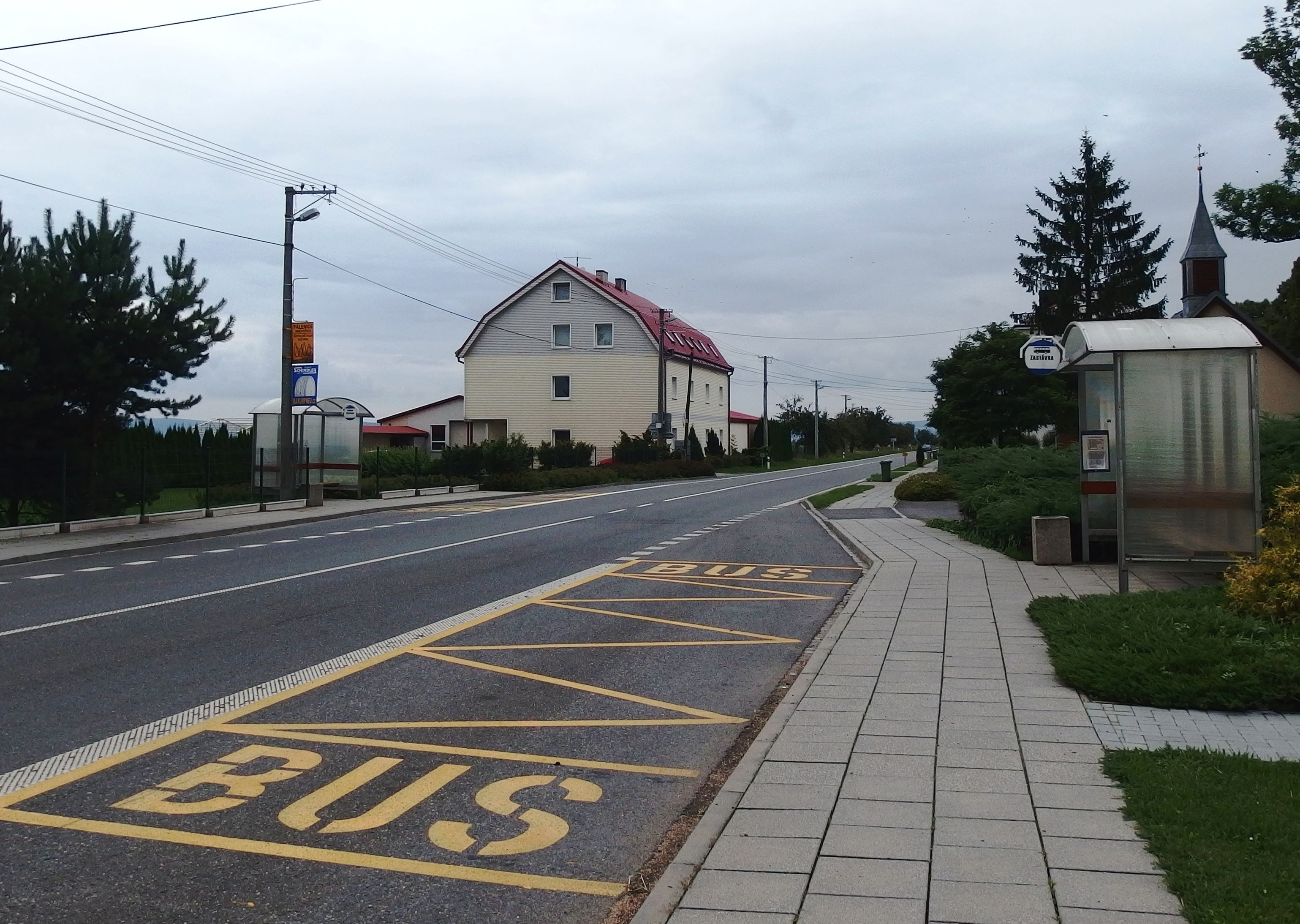 Opava, Czech Republic, part Pusté Jakartice.